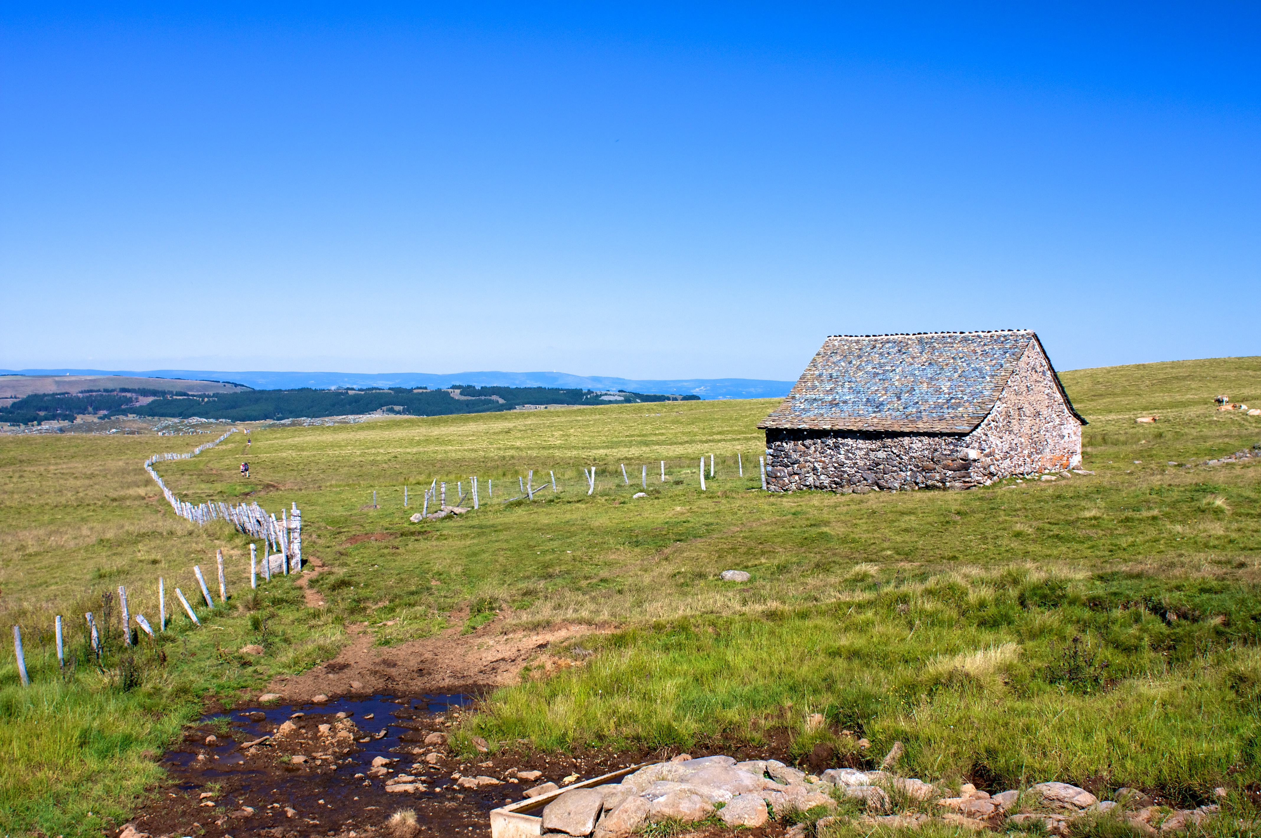 Landscape of Aubrac